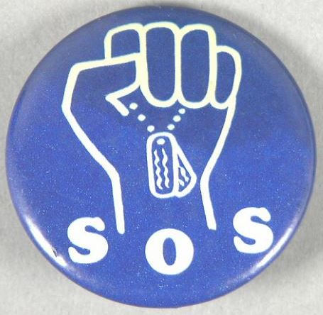 This blue button has a drawing of a fist holding dog-tags below which is SOS (Stop Our Ships). These were produced as part of large movement of sailors and civilians to stop U.S. Navy ships from sailing to the Vietnam War. The movement existed from 1971 to 1975 when the war ended.